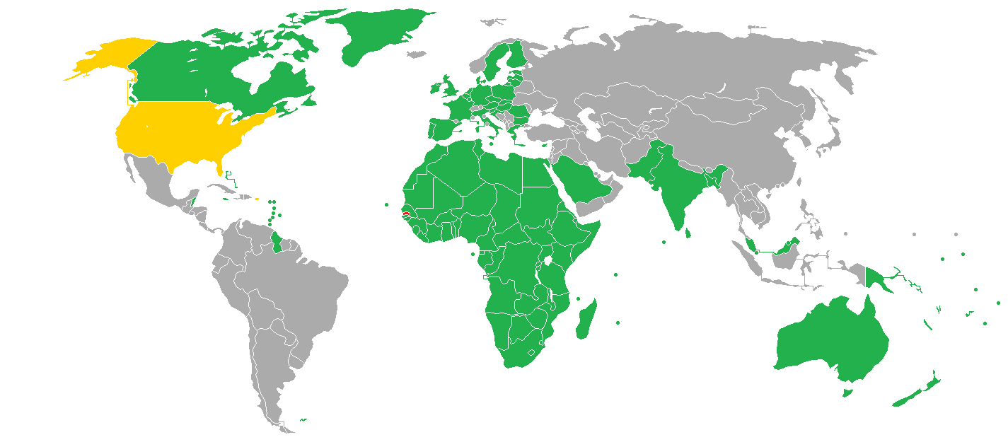 Visa policy of the Gambia The Gambia Visa-free Visa-free but entry clearance required Visa on arrival Visa required Visa and entry clearance required